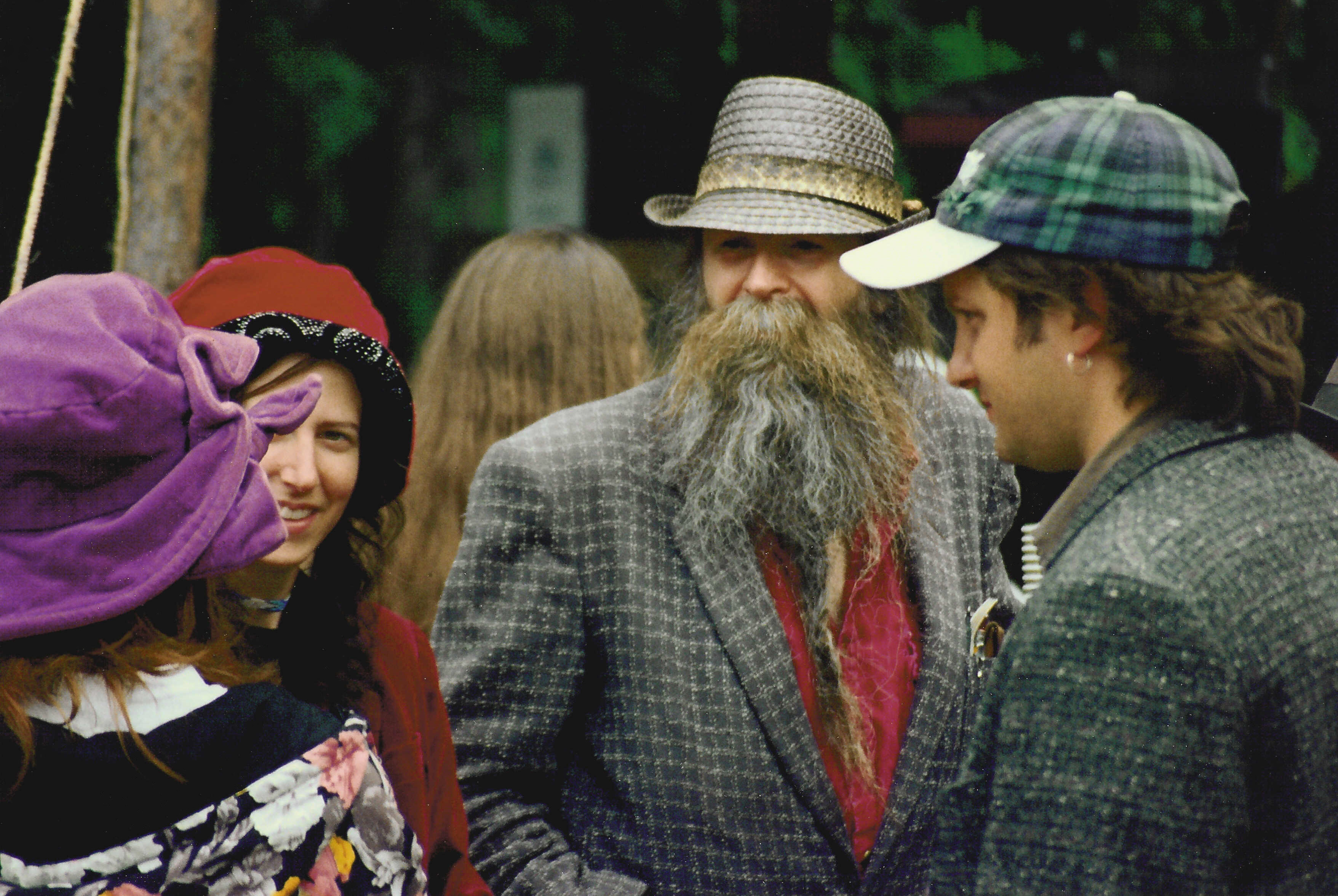 Seattle musician (singer, songwriter and steel guitarist) Baby Gramps (second from right) at Starlight Mountain Festival.